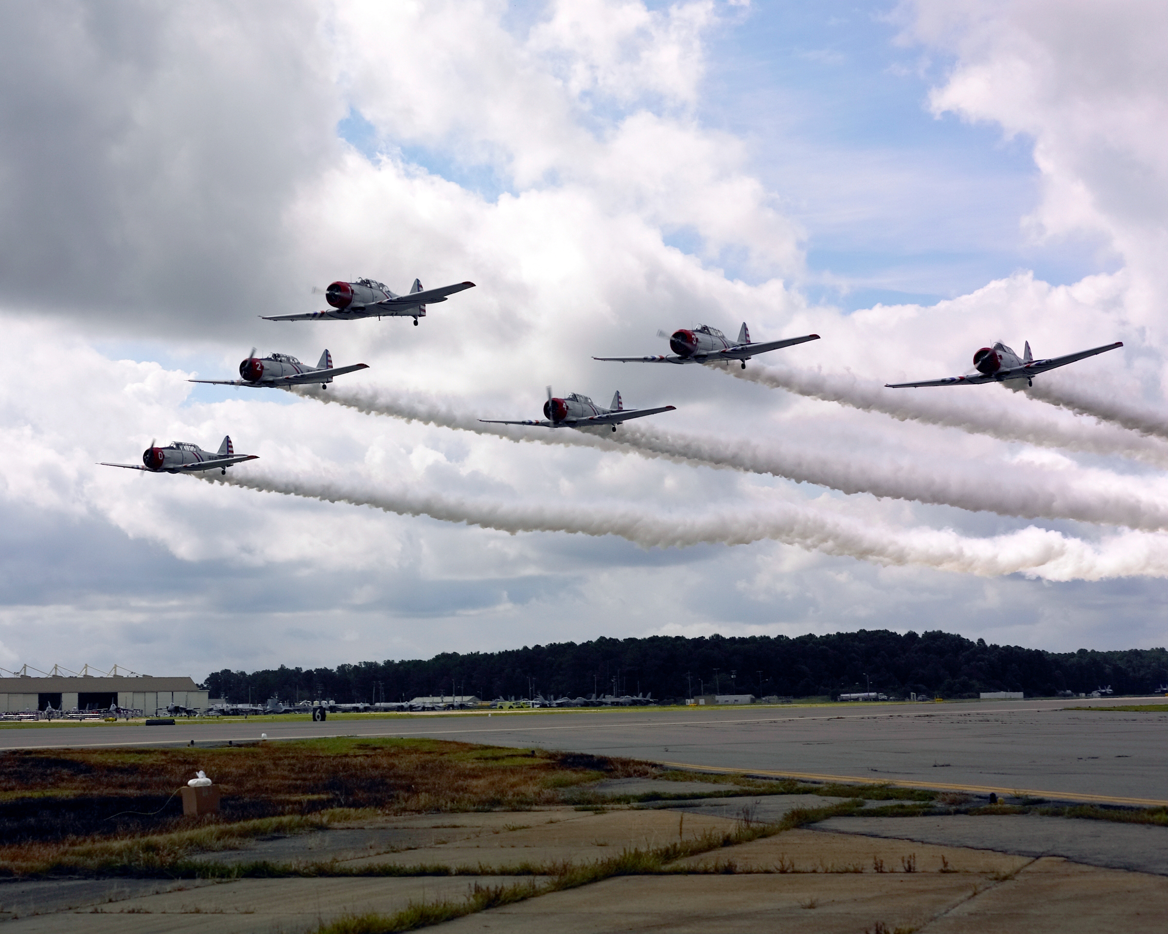 Naval Air Station Oceana, Va. (Sept. 25, 2004) - The Skytypers Air Show Team fly down the runway in formation at the 2004 "In Pursuit of Liberty," Naval Air Station Oceana Air Show. The Skytypers are a squadron of six World War II SNJ aircraft that create computer controlled giant messages in the sky that can be seen for fifteen miles. The air show, held Sept. 24-26, showcased civilian and military aircraft from the Nation's armed forces, which provided numerous flight demonstrations and static displays. U.S. Navy photo by Photographer's Mate 1st Class Anthony M. Koch (RELEASED)